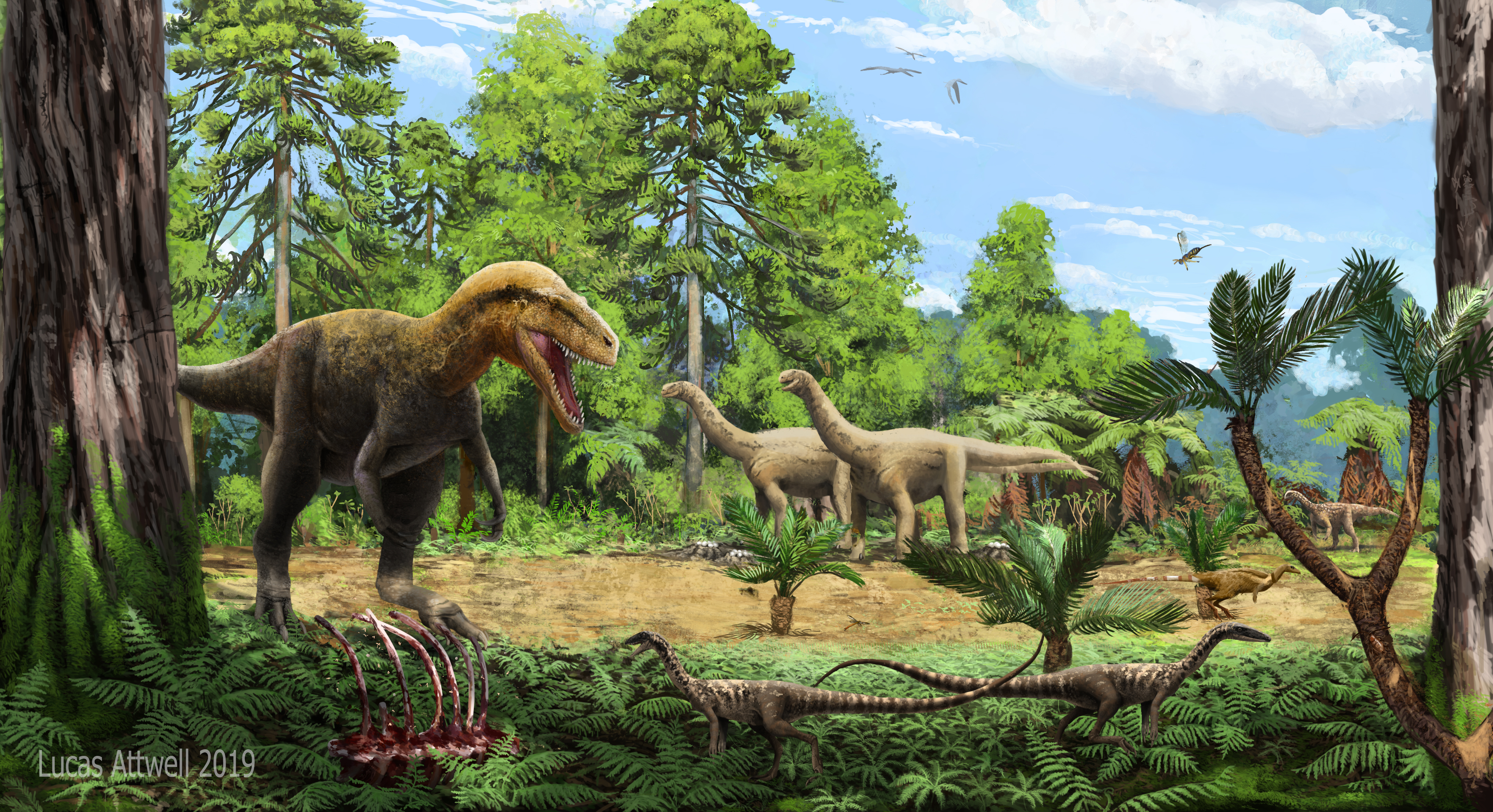 Remake of the original picture of the Drzewica Formation. Terrestrial environment of the Toarcian of Łęczna (Ciechocinek Formation, Lublin, Poland), based on the Bogdanka Coal Mine Flora. Inland environment of the Polish Realm of the Ciechocinek Formation (Mostly Seashore or related). Ciechocinek Formation is dated from the Lower to Middle Toarcian(Pieńkowski, 2004) and it is que regional equivalent of the Posidonia Shale. The Fauna and flora appear based on the reported Footprints & fossil wood Diversified trace fossils (Specially Invertebrates) are common. Dinosaurs are based on material found on various locations of the formation. Dinosaur Species appeared: Orionides spp. The assignation to the Orionides Group comes tho the find of dorsal vertebrae on the German Margin of the formation (Huene, 1966). Gravisauria spp. representing the Grimmen Sauropod reported on 2014. Coelophysoidea spp. based on coeval Anchisauripus tracks. Basal Ornithischan, related to Eocursor, based on a crouching trace (Gerard Dariusz Gierlinski, Martin G. Lockley, Grzegorz Niedźwiedzki:2009). Massospondylidae spp. based on Otozum-like tracks.